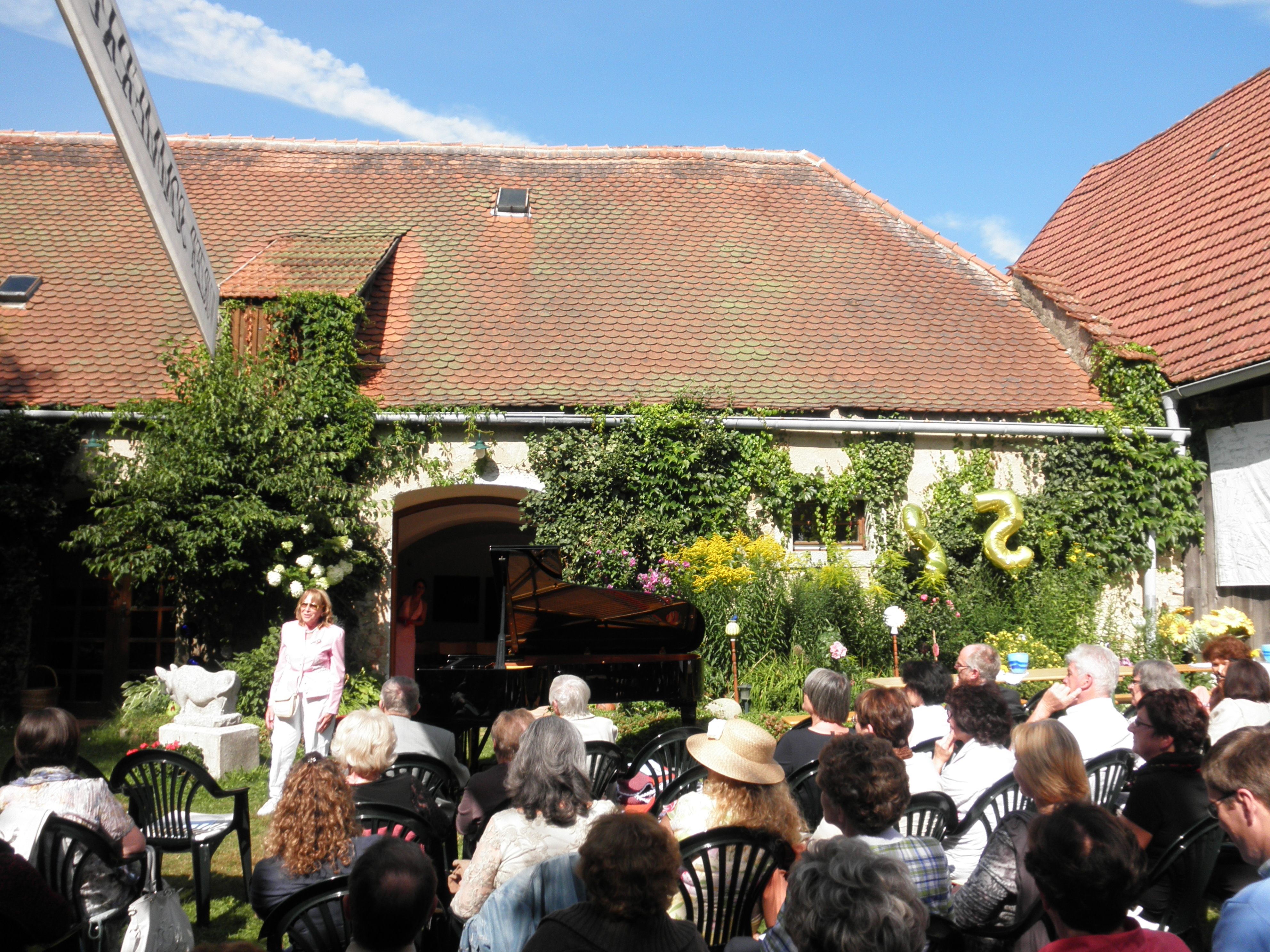 Pfarrhof in Wurz (Püchersreuth) in Bavaria